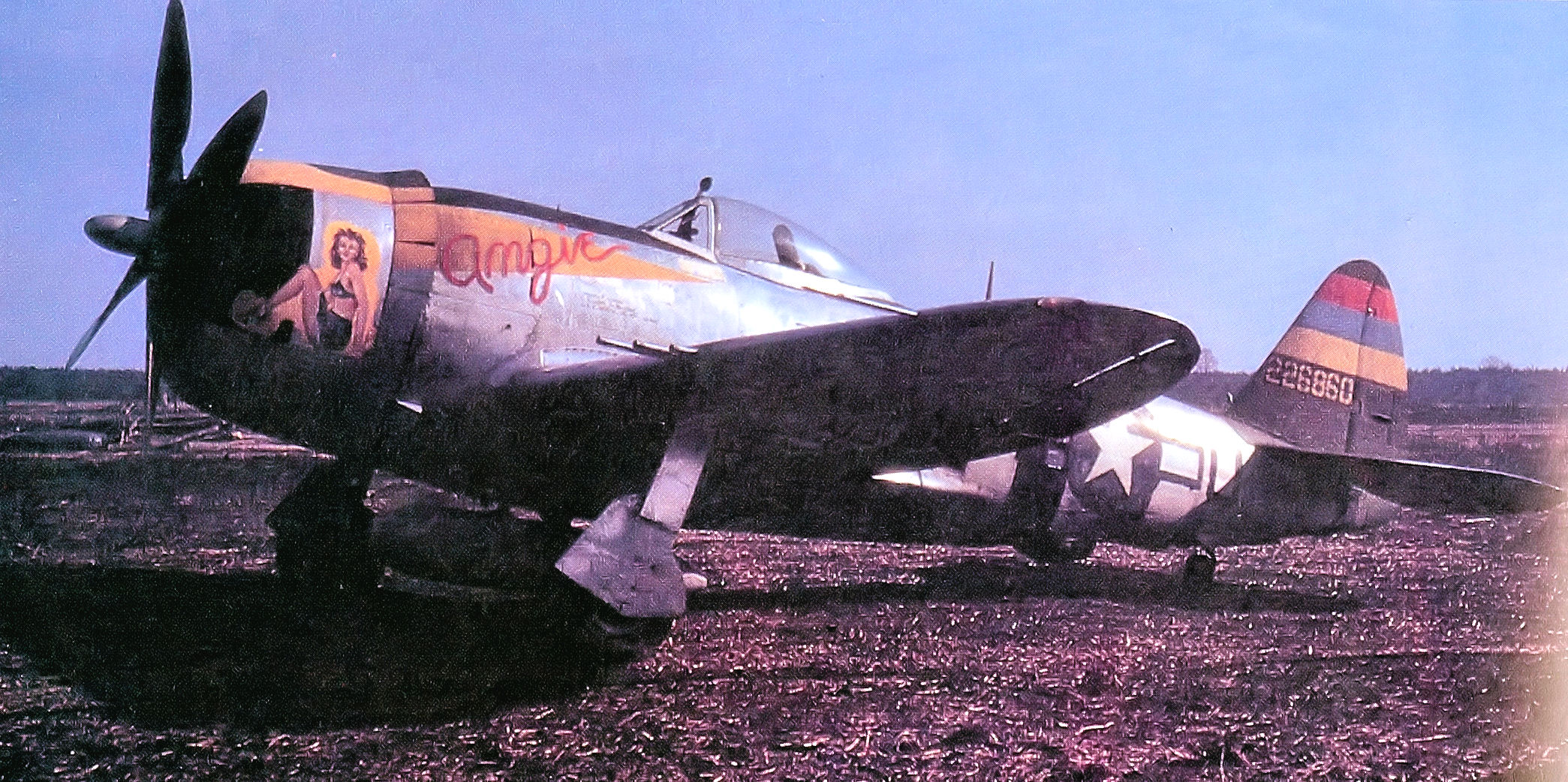 512th Fighter Squadron Republic P-47D-27-RE Thunderbolt 42-26860, "Angie", Asch Airfield (Y-29), Belgium, February 1945.